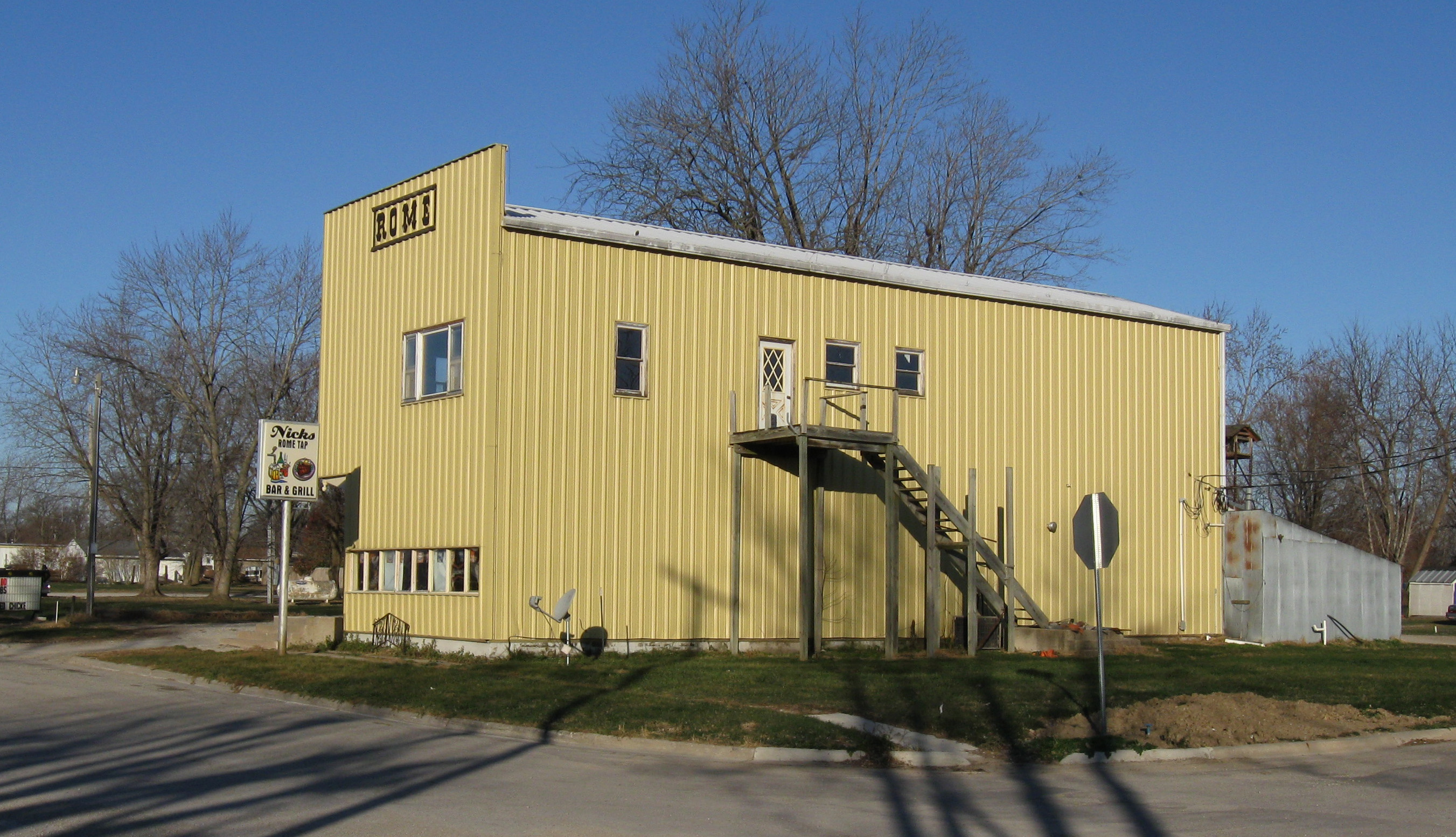 Rome, Iowa. Nick's Rome Tap, possibly the only public business in town